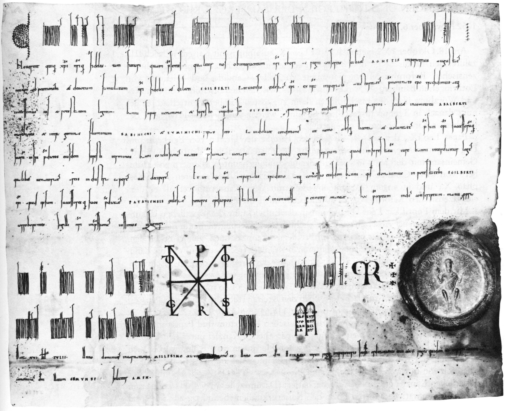 A charter of emperor Henry III for Egilbert, bishop of Passau, issued on June 16th, 1049. München, Bayerisches Hauptstaatsarchiv, Kaiserselekt 372.